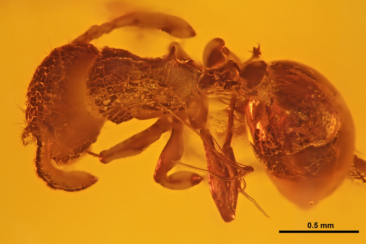 Dorsal view of the Enneamerus reticulatus neotype worker. Middle Eocene; Baltic amber, Samland Peninsula, Kalingrad, Russia Geowissenschaftliches Museum der Universität Göttingen, University of Göttingen, Göttingen, Germany; specimen GZG-BST04660